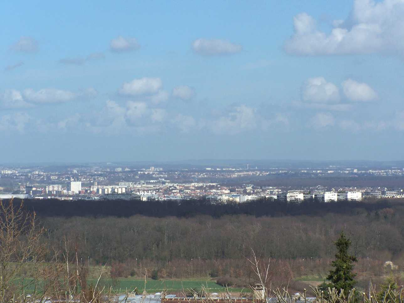 Large sight of Achères (Yvelines, France) from the heights of Chambourcy